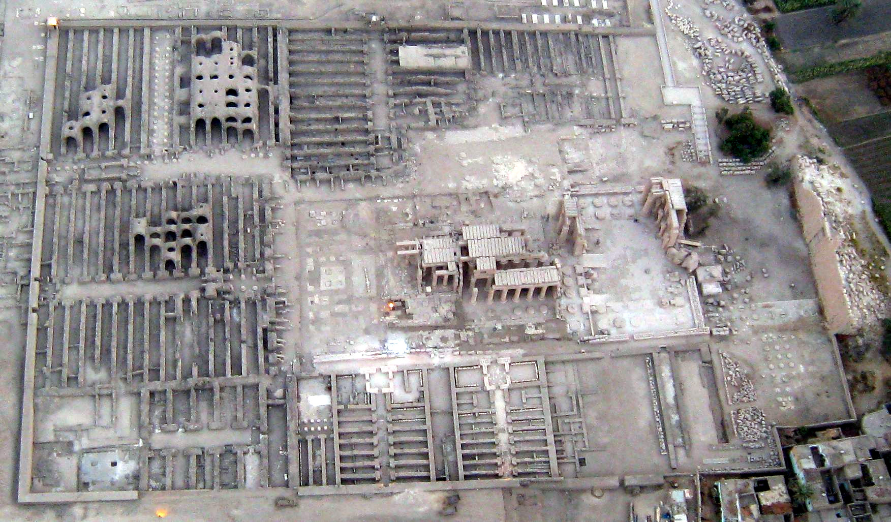 Aerial view of Ramesseum, Luxor, West Bank, Egypt